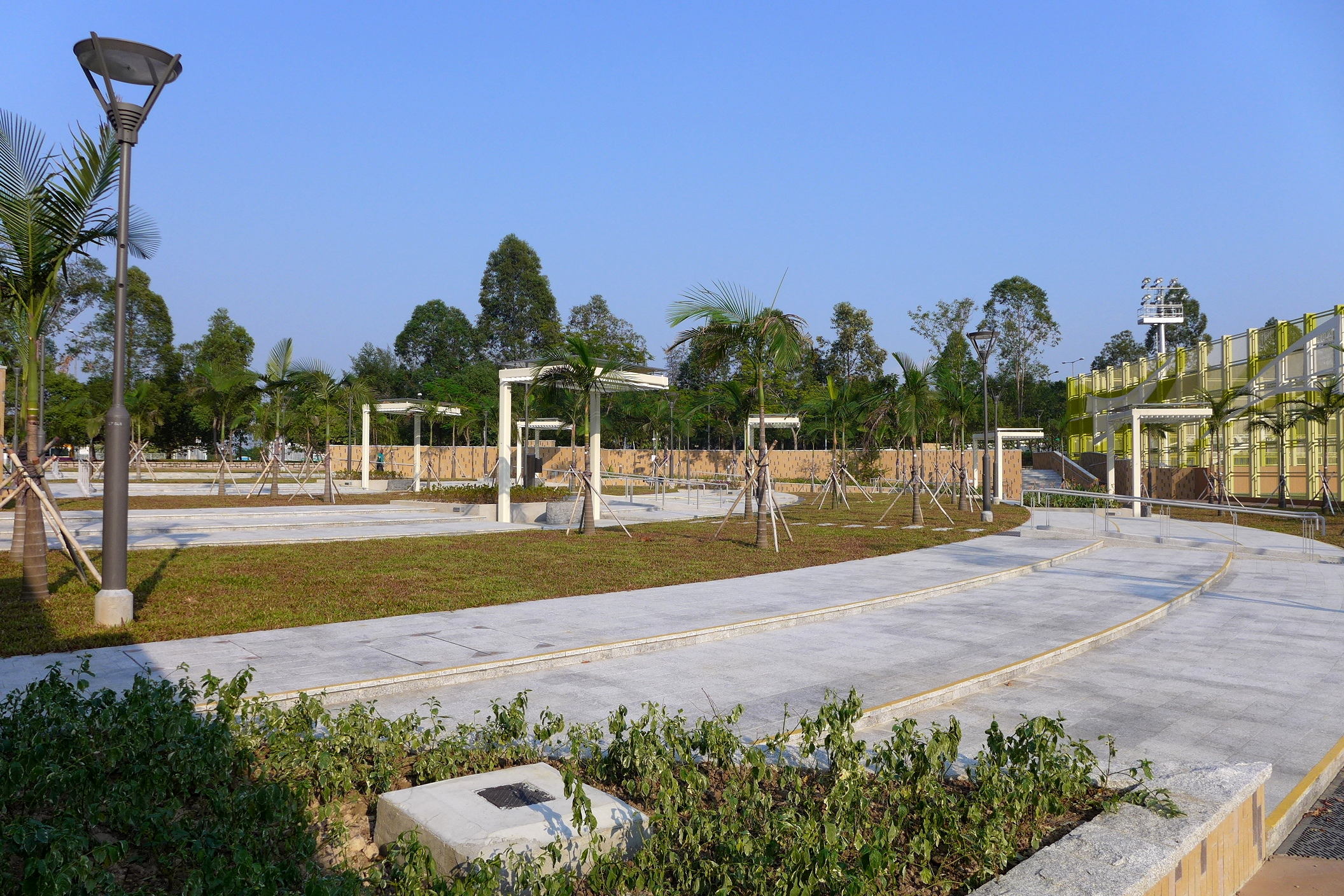 Tin Yip Road Park